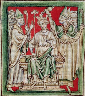 Coronation of Richard I of England